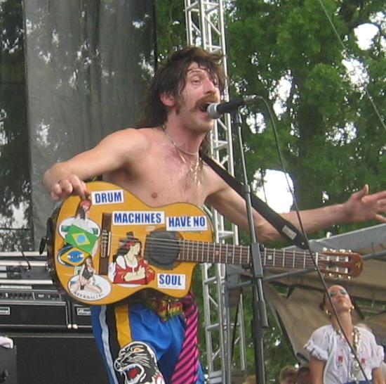 Eugene Hutz of Gogol Bordello at Bonnaroo 2008